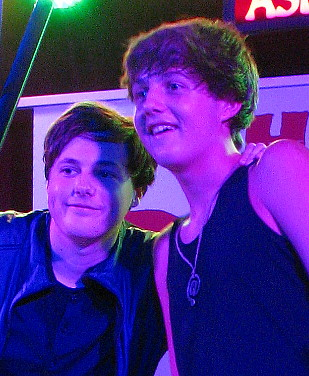 The Reis Brothers at The Saint, Asbury Park, NJ 08182015. Photo by LHCollins.